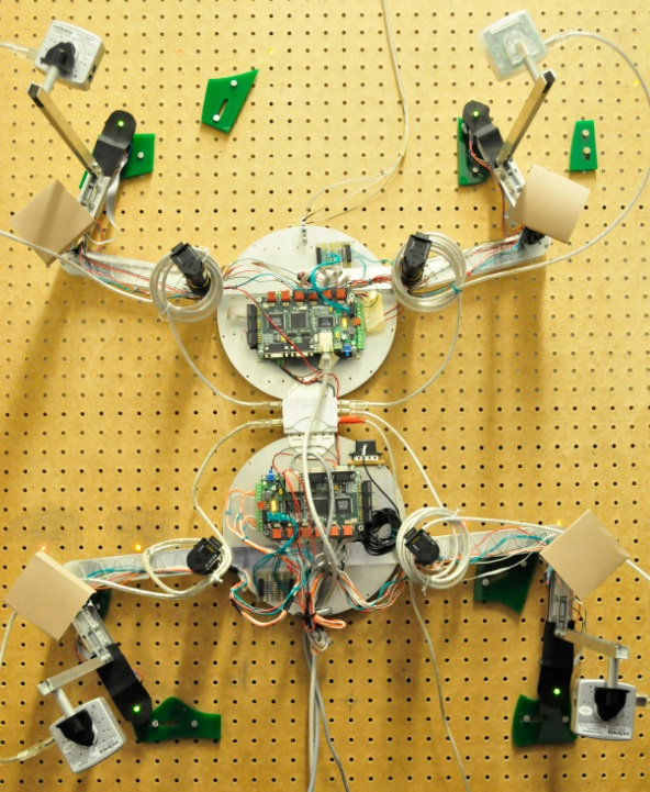 Capuchin climbing robot climbing a vertical artificial climbing wall.